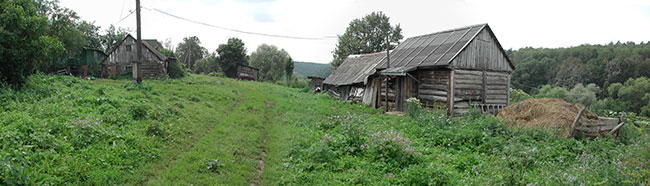 Деревня Сутормино, фото 2004 года.